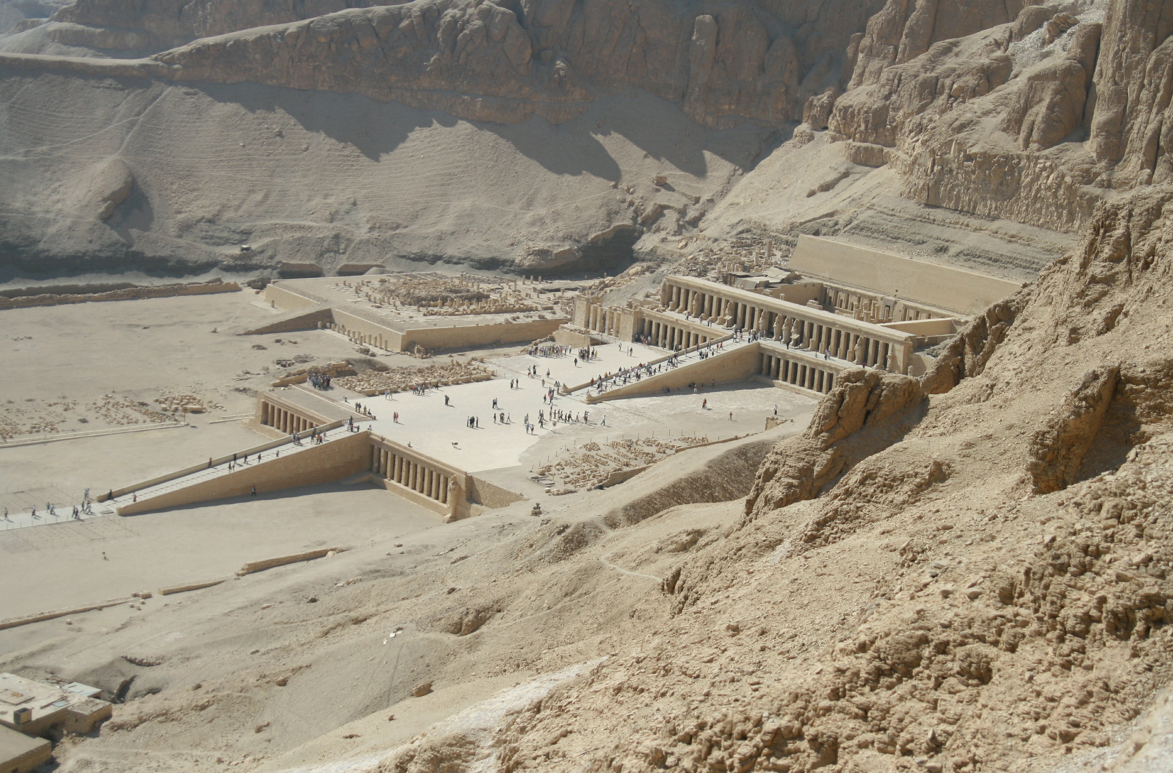 Deir el-Bahari with the mortuary temple of Hatshepsut, temple of Thutmosis III and temple of Mentuhotep II, Egypt